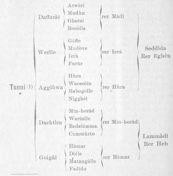 Tunni clan tree